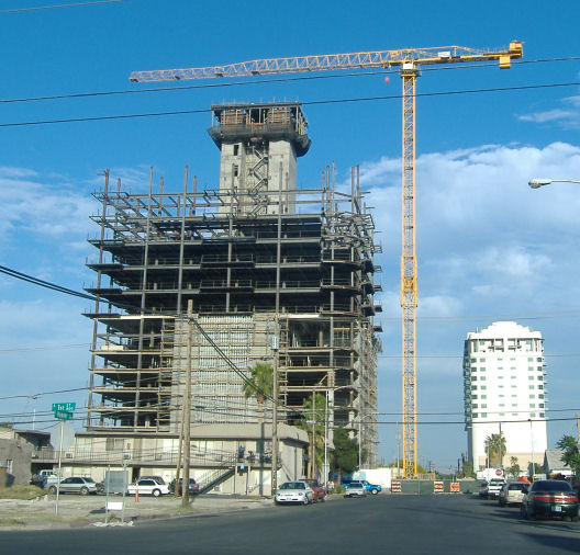 Photograph of Newport Lofts construction taken in May 2006.